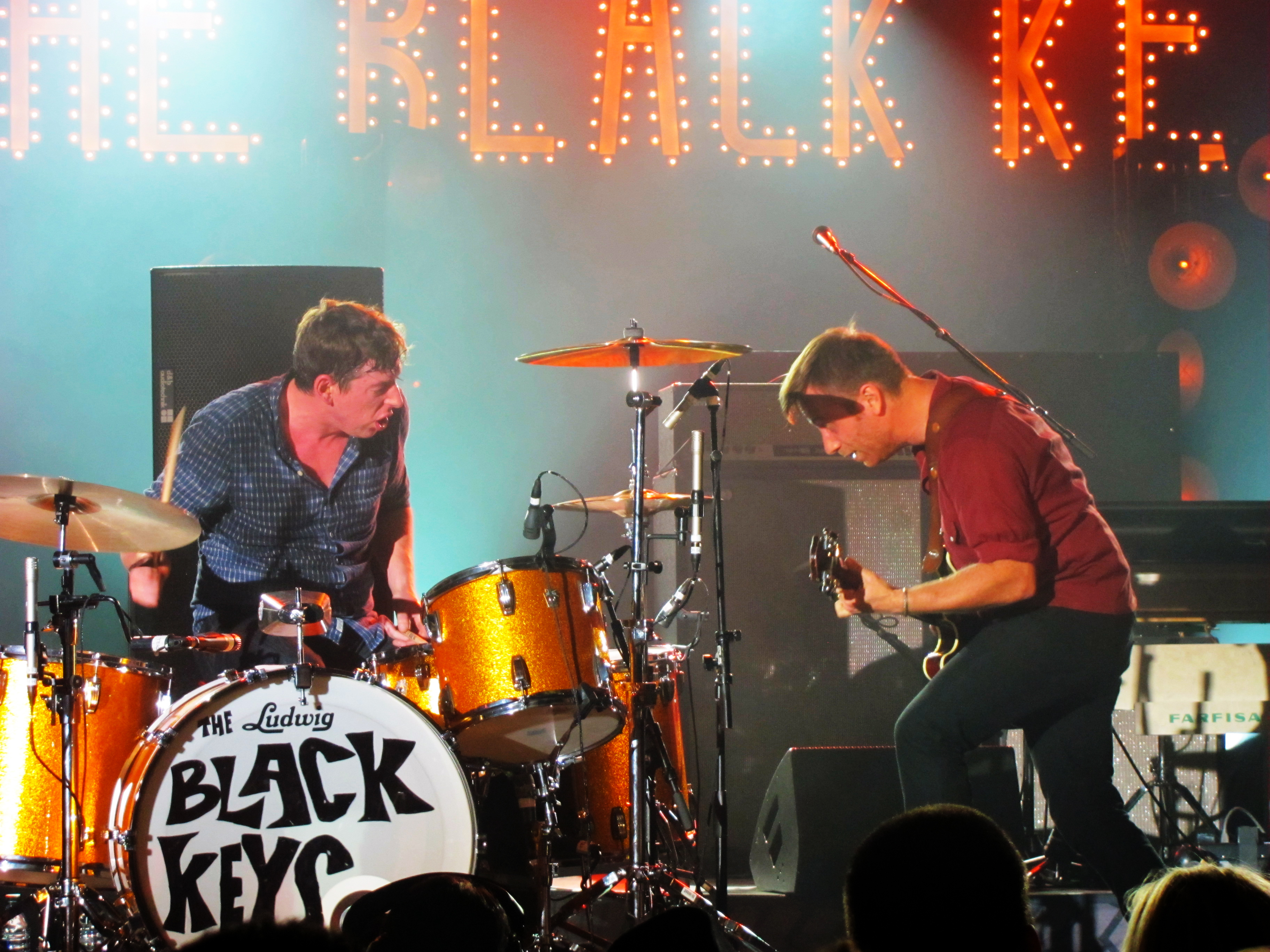 This is a picture taken by myself at the concert held in The Chelsea at The Cosmopolitan in Las Vegas.